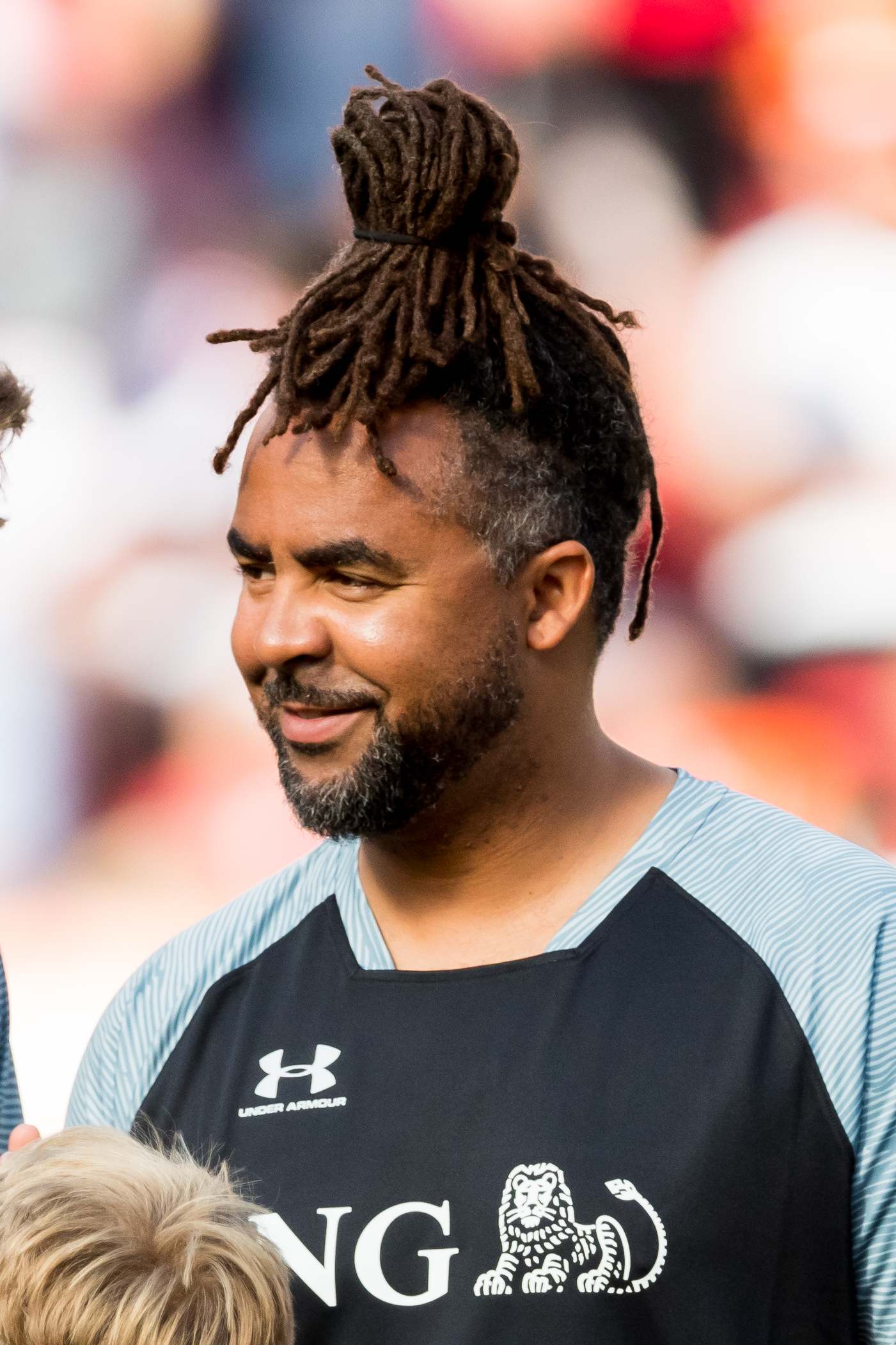 Patrick Owomoyela during Champions for Charity at BayArena, Leverkusen, Nordrhein-Westfalen, Germany on 2019-07-21, Photo: Sven Mandel